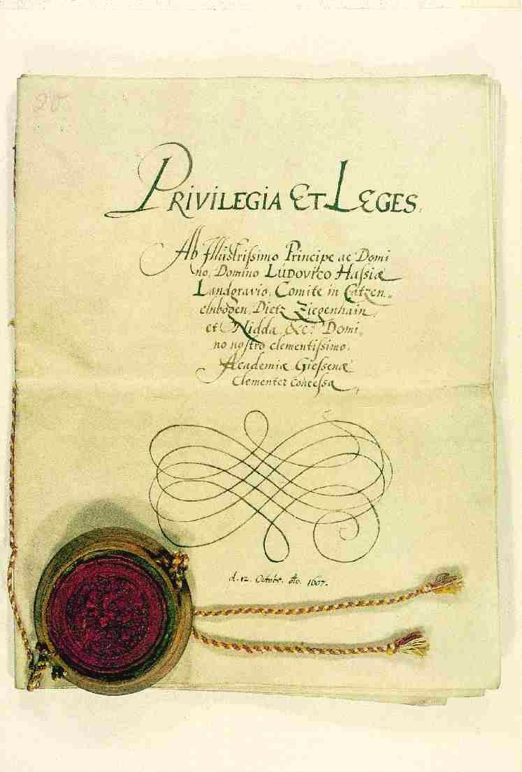 bylaws for the Giessen University by the landgrave Ludwig V